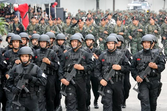 Presidential Security Group Special Reaction Unit operators marching during a parade. While the leading SRU operator has a Heckler & Koch G36C, the rest have G36 rifles with them.